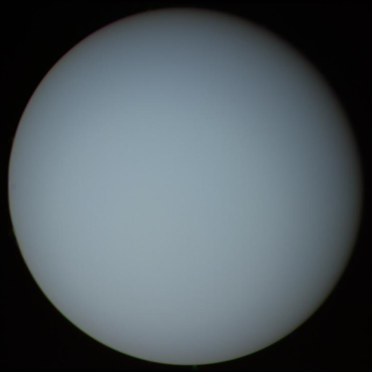 This image of Uranus was compiled from images returned Jan. 17, 1986, by the narrow-angle camera of Voyager 2. The spacecraft was 9.1 million kilometers (5.7 million miles) from the planet, several days from closest approach. This picture has been processed to show Uranus as human eyes would see it from the vantage point of the spacecraft. The picture is a composite of images taken through blue, green and orange filters. The darker shadings at the upper right of the disk correspond to the day-night boundary on the planet. Beyond this boundary lies the hidden northern hemisphere of Uranus, which currently remains in total darkness as the planet rotates. The blue-green color results from the absorption of red light by methane gas in Uranus' deep, cold and remarkably clear atmosphere.